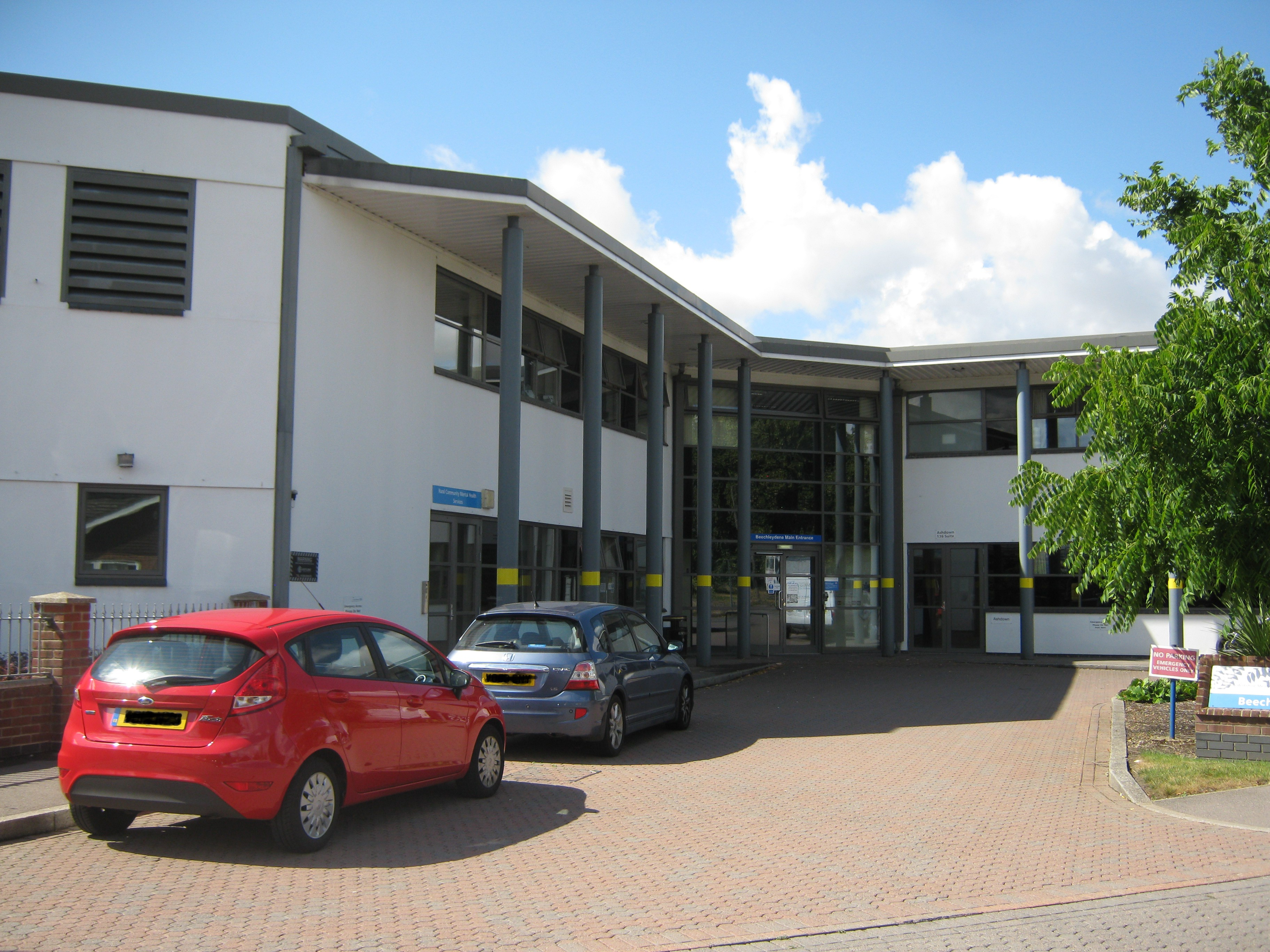 A view of the entrance to Beechlydene Ward , part of Fountain Way hospital, Salisbury